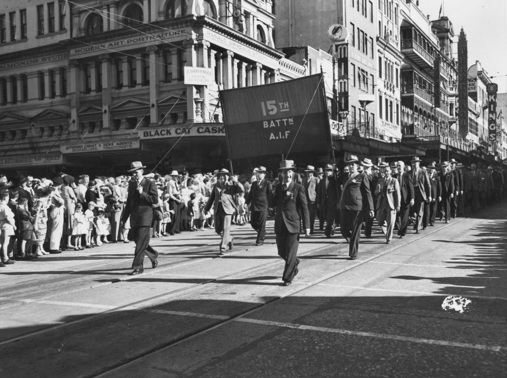 Anzac Day march in Brisbane, ca. 1954. Members of the 15th Battalion of the A.I.F. march through Brisbane.